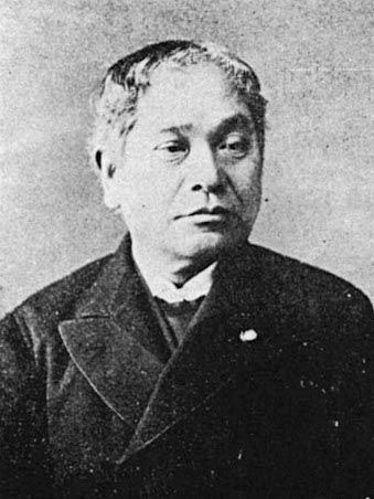 Ōki Takatō.